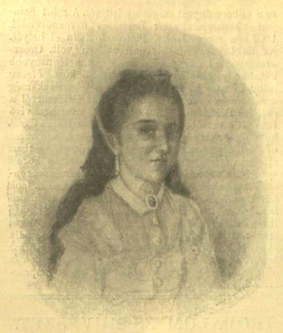 Róza Jókai. Graphic by Mór Jókai.